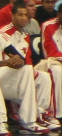 Jannero Pargo on the bench